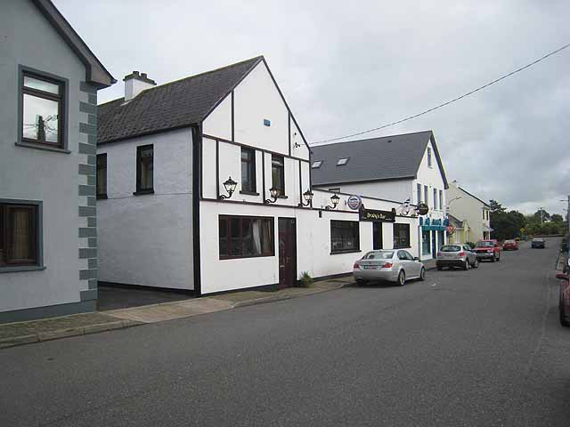 Carney village centre Although small, Carney village is surprisingly well-provided with facilities including a bar, a restaurant cum bar, and a shop.